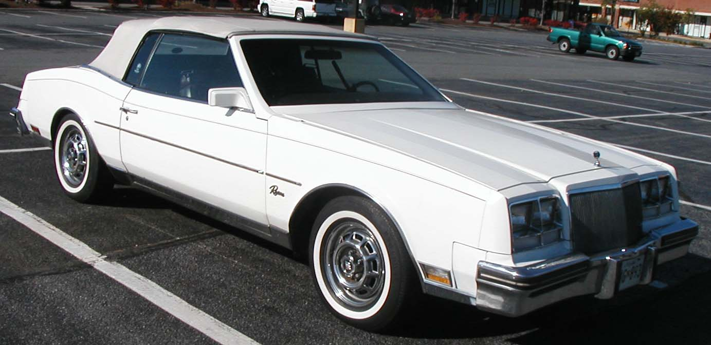 1982-1985 Buick Riviera convertible photographed in USA.